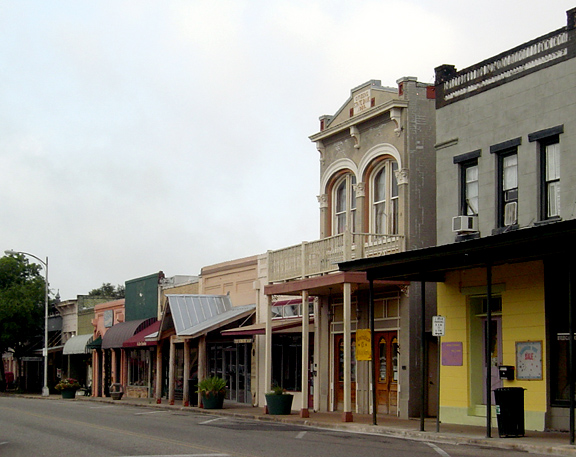 Main Street, Bastrop, Texas, United States. Part of the Bastrop Commercial District which was listed on the National Register of Historic Properties on December 22, 1978.